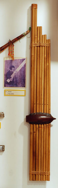 A Cambodian musical instrument called a khene. Could also be the Thailand version.